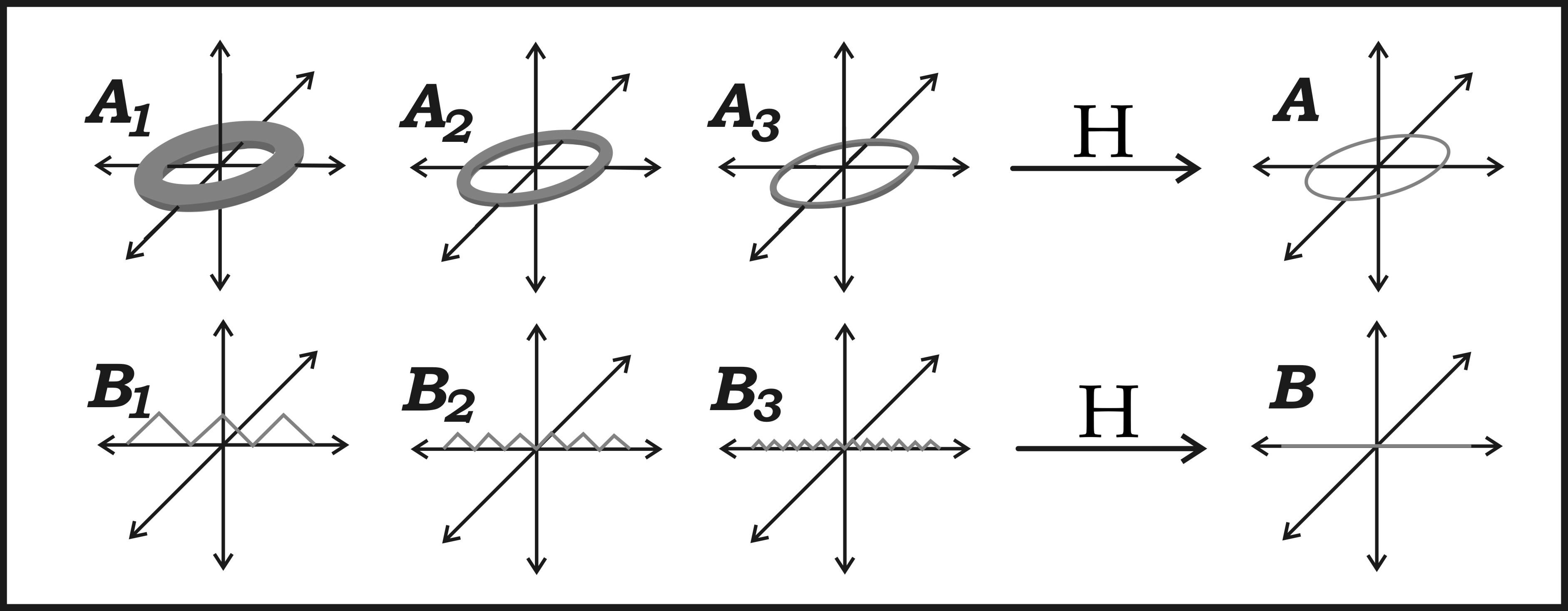 "How Riemannian Manifolds Converge: a Survey" by Christina Sormani, Metric and Differential Geometry: The Jeff Cheeger Anniversary Volume, edited by X. Rong and X. Dai, Progress in Mathematics Vol 297, 27pp.